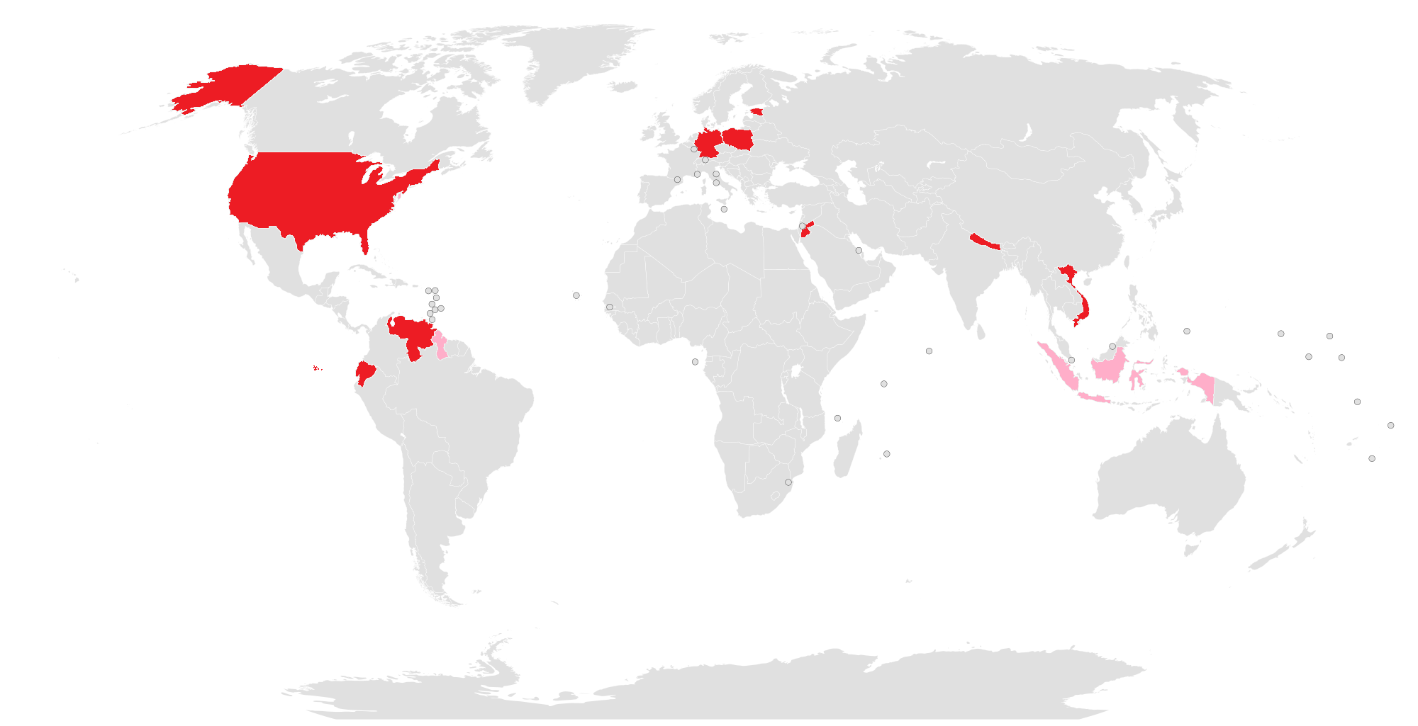 PZL M28 users